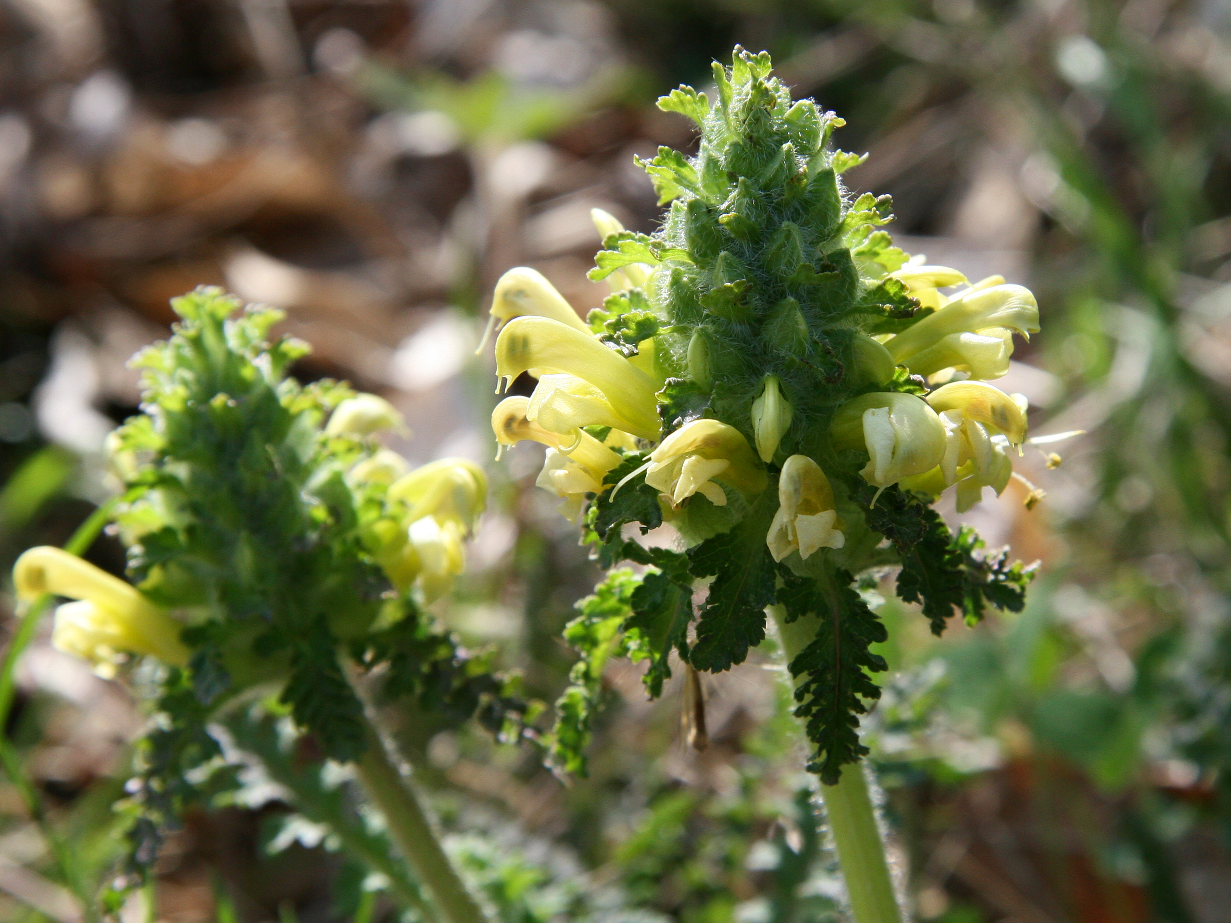 Pedicularis canadensis, also known as wood betony, photographed in rural Warren County, Indiana.